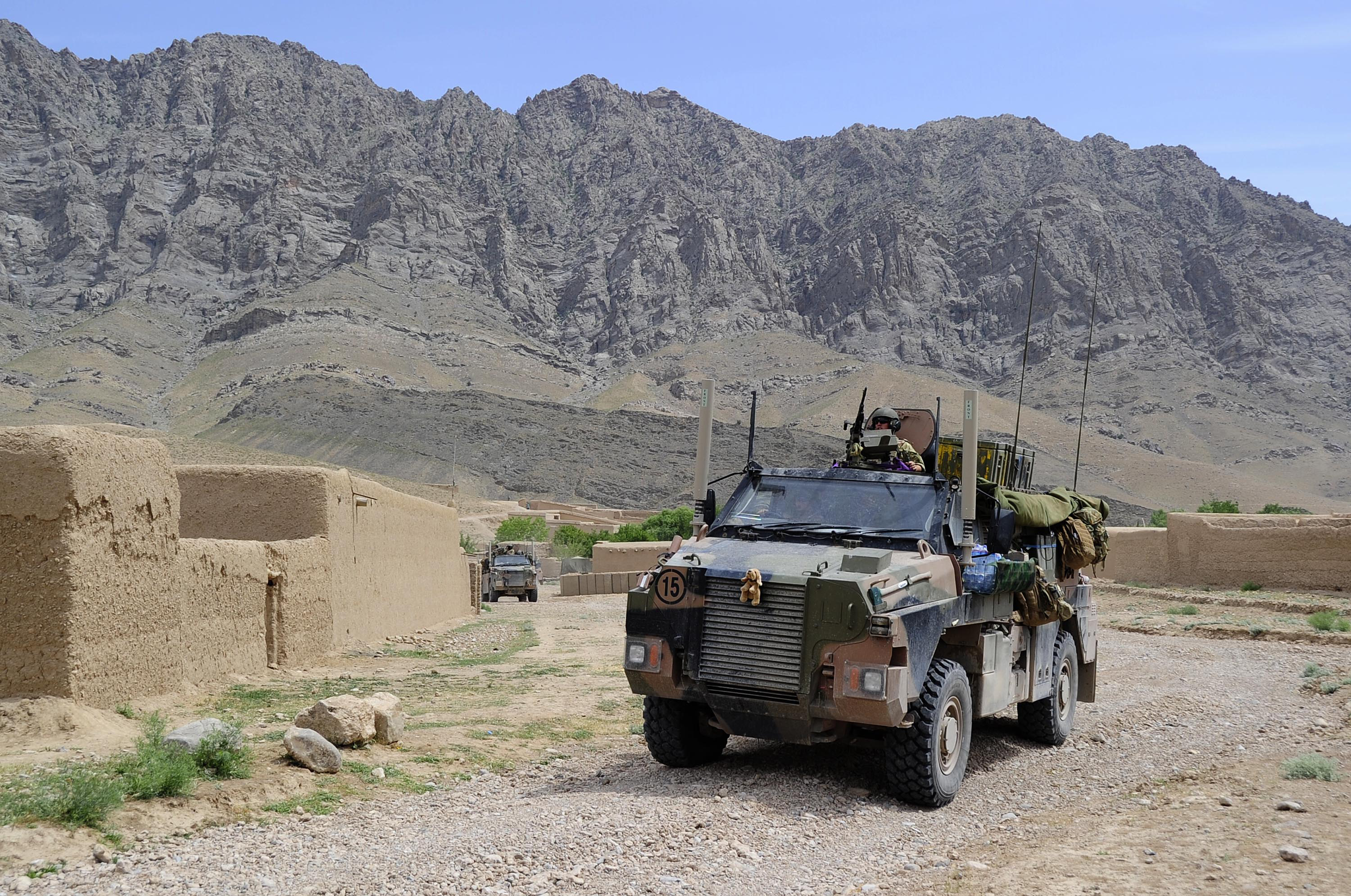 Soldiers from the First Mentoring Task Force conduct mounted patrols and convoys in Bushmasters through the Baluchi Valley. Set against the picturesque rugged mountains and lush green valley of the Southern Baluchi, soldiers of the First Mentoring Task Force and their Afghan National Army (ANA) counterparts swept the laneways, qualas and fields of villages in Southern Baluchi Valley in surge operations that delivered an increased security presence in the area. The operation called Jenub Fayda (Southern Advantage) was a major combined ANA and MTF1 security operation that was designed to facilitate Afghan government development opportunities in liaison with the local community. The main focus of development is education, health and works. Commanding Officer of the First Mentoring Task Force, Lieutenant Colonel Jason Blain said that support from the community was strong with local elders voicing their thanks for Afghan Army and MTF1 efforts. A range of combined MTF1 and ANA surge operations will be conducted over the coming months in the Baluchi and Mirabad valleys as well as the Chora area. LTCOL Blain said MTF1 will deliver a suite of effects including security, development and governance by working closely with AusAid, the Department of Foreign Affairs and Trade, the Afghan government and Coalition partners. (Photo courtesy Australian Government Department of Defence)